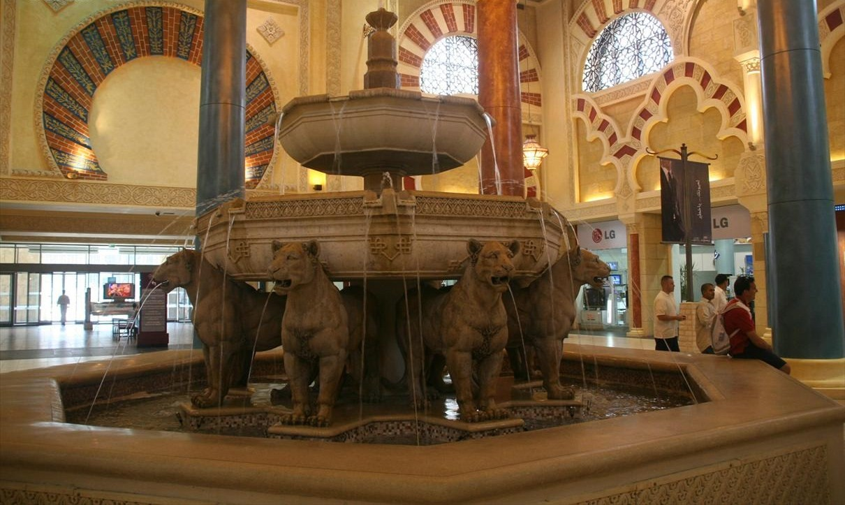 This is a photo showing a fountain in the Andalusia Court of Ibn Battuta Mall in Dubai, United Arab Emirates on 2 June 2007.